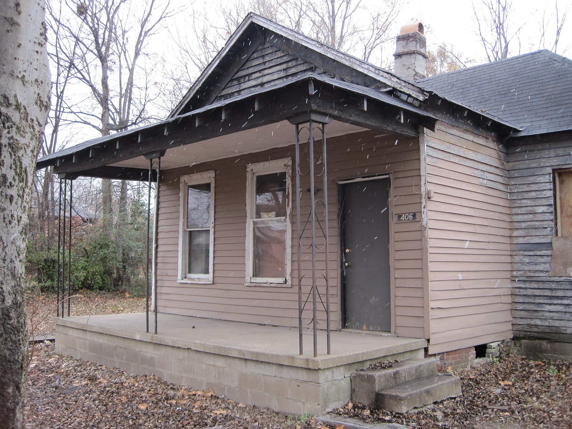 Aretha Franklin birthplace at 406 Lucy Avenue in Memphis, Tennessee. (Snow flurries in the pictures.)